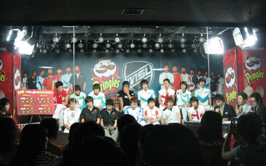 Heros COEX Center